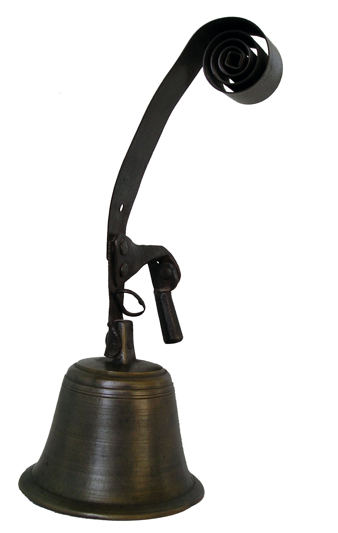 Old shop doorbell from the Netherlands